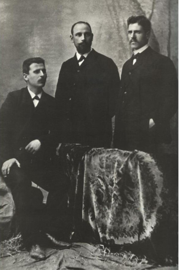 Bulgarian revolutionaries from IMARO (second) Yane Sandanski, (third) Krastyo Asenov